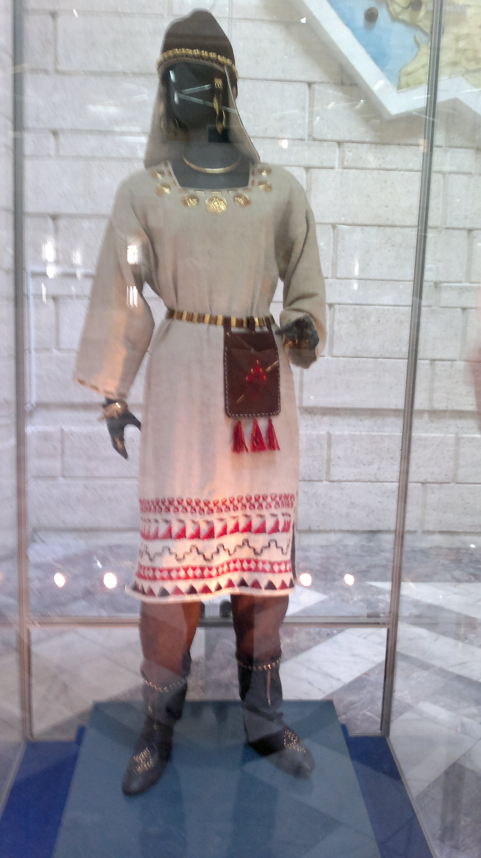 Clothes and decorations of a woman of Andronovian culture